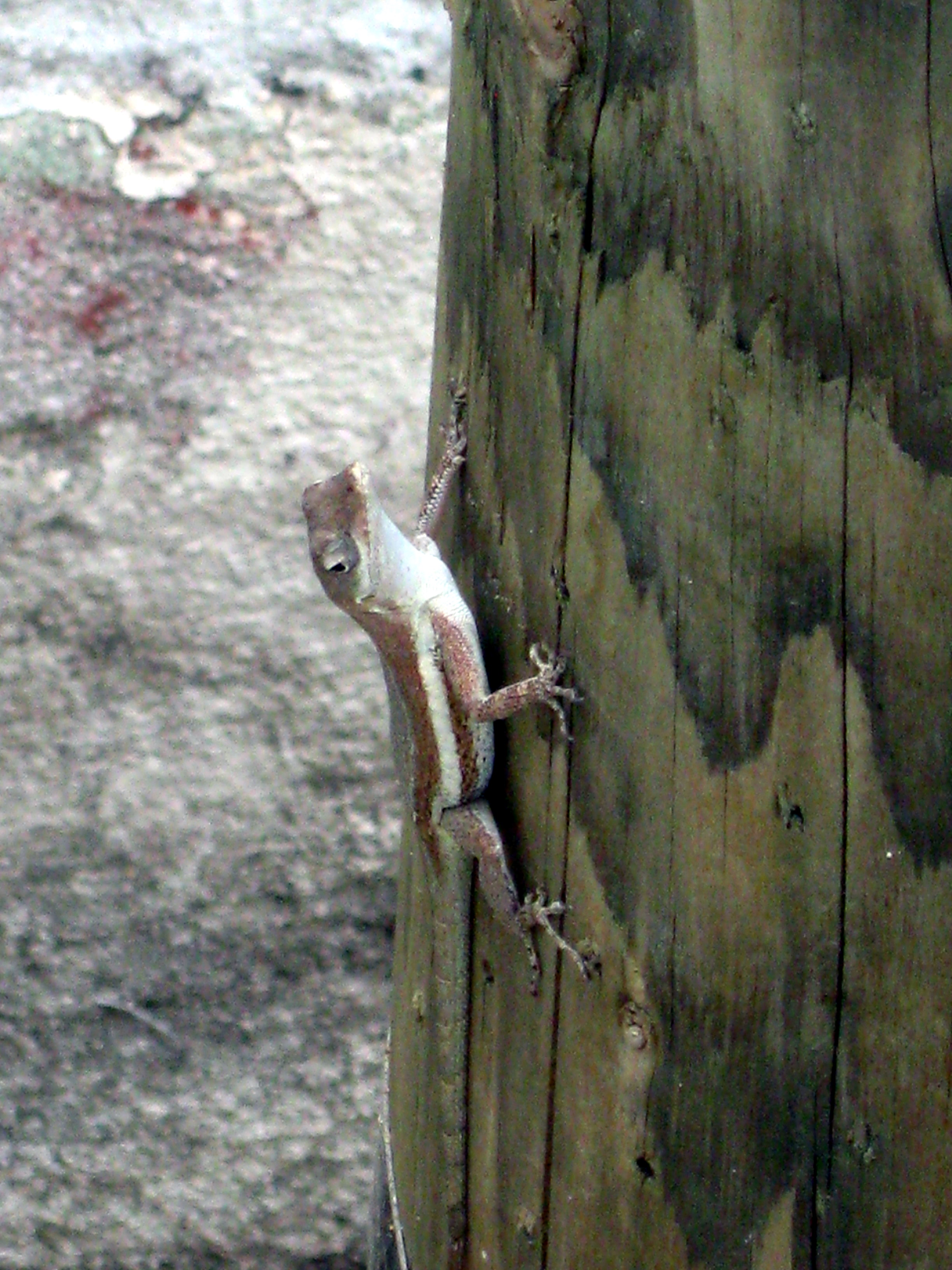 another Anolis gingivinus on tree trunk